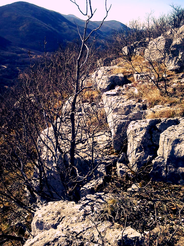 Garvanov kamuk peak stone wall Vrabcha BG